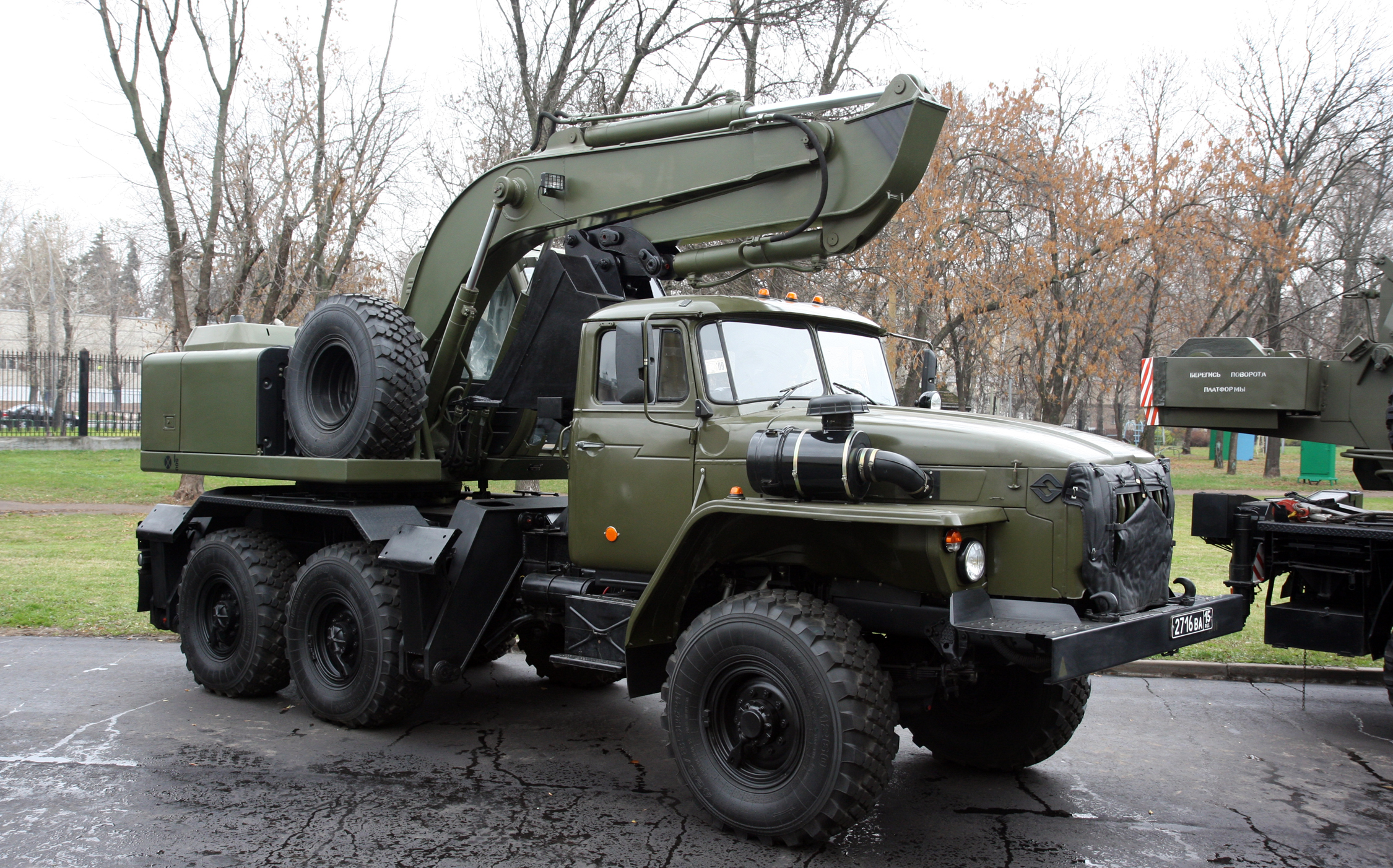 Excavator EOV-3521